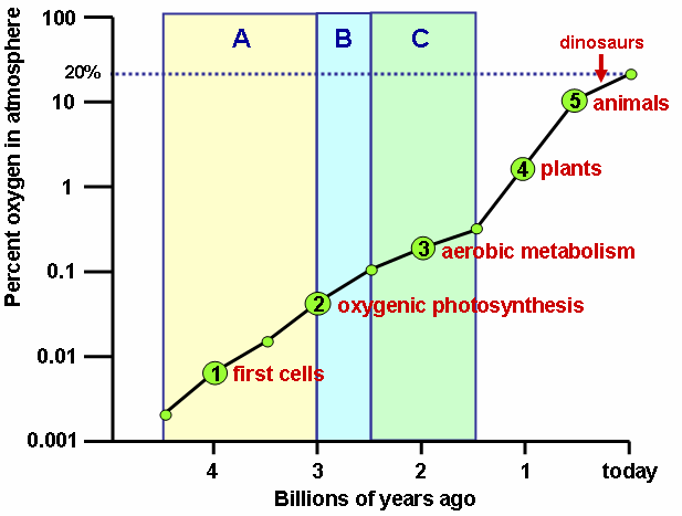 Representation of evolutionary and geological events leading to changes of oxygen content in earth's atmosphere since the formation of the planet.